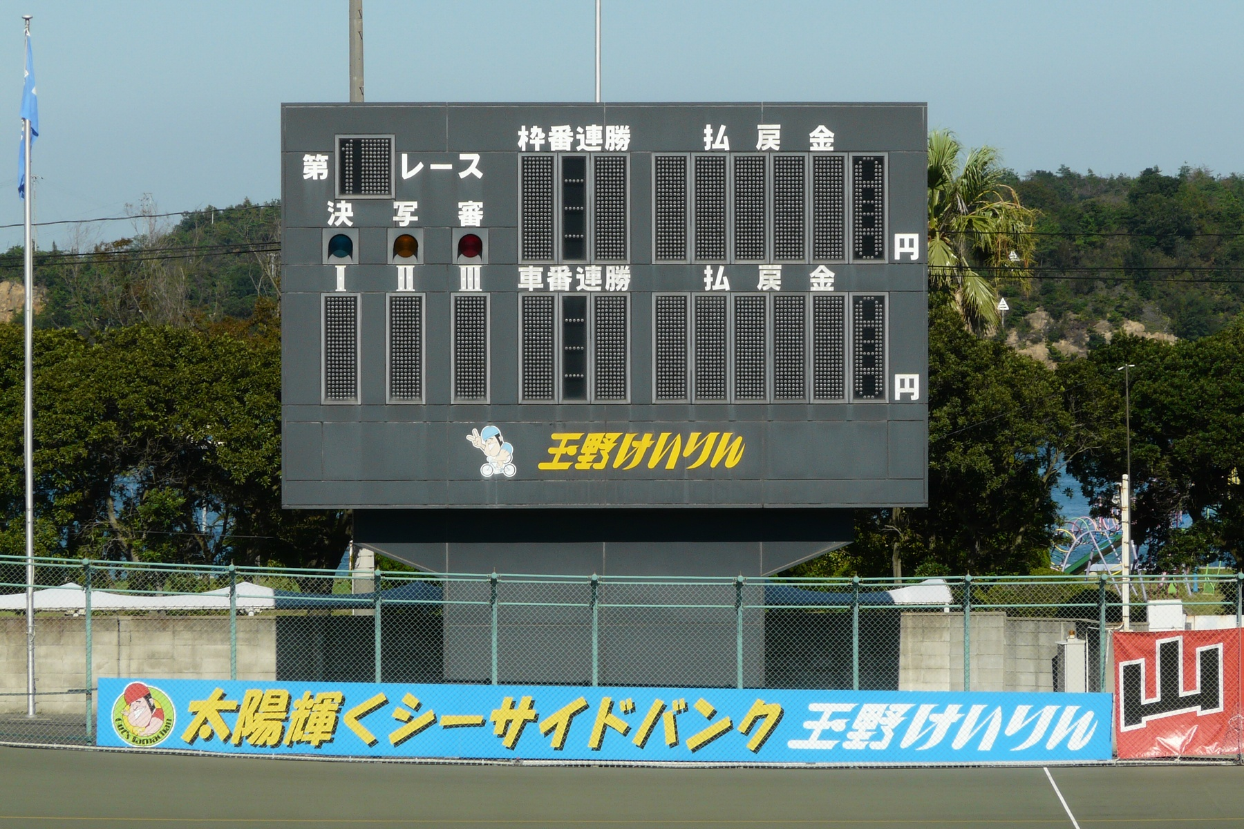 Tamano-keirin